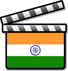 The image is about the Indian film Industry.